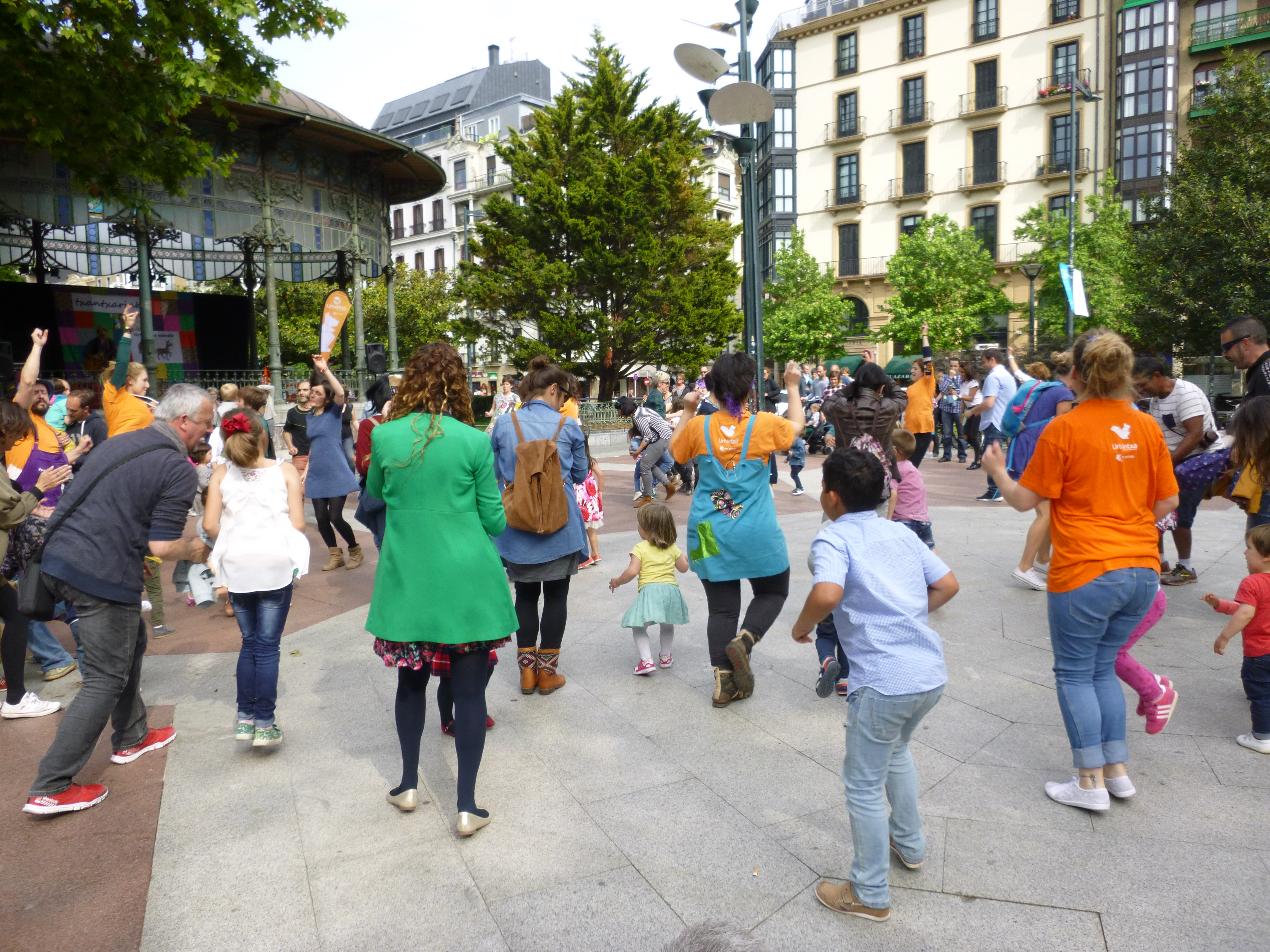 Culture animation in Donostia